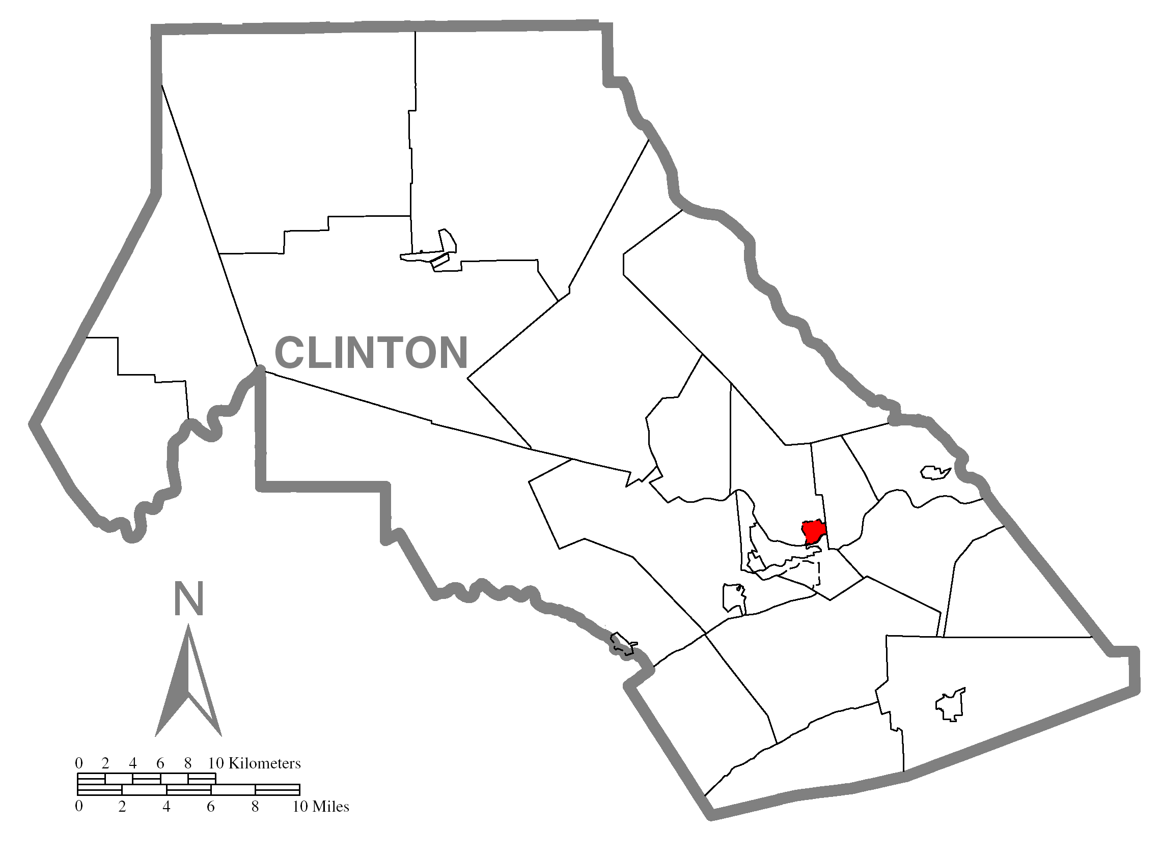 A map of Clinton County showing Dunnstown, Pennsylvania (alternate) highlighted on the map.